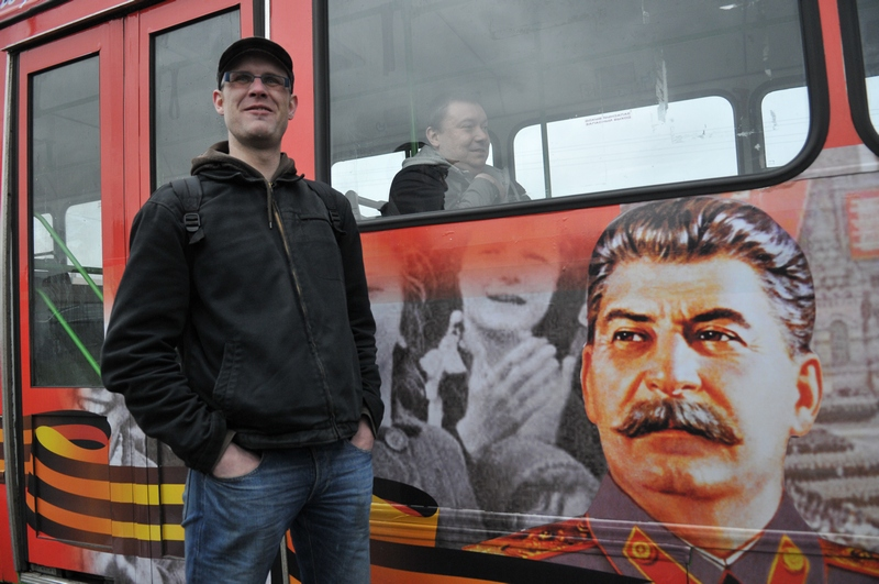 Bus with Stalin's portrait in St. Petersburg on route 187-k in the period from 2010-05-05 to 2010-05-19